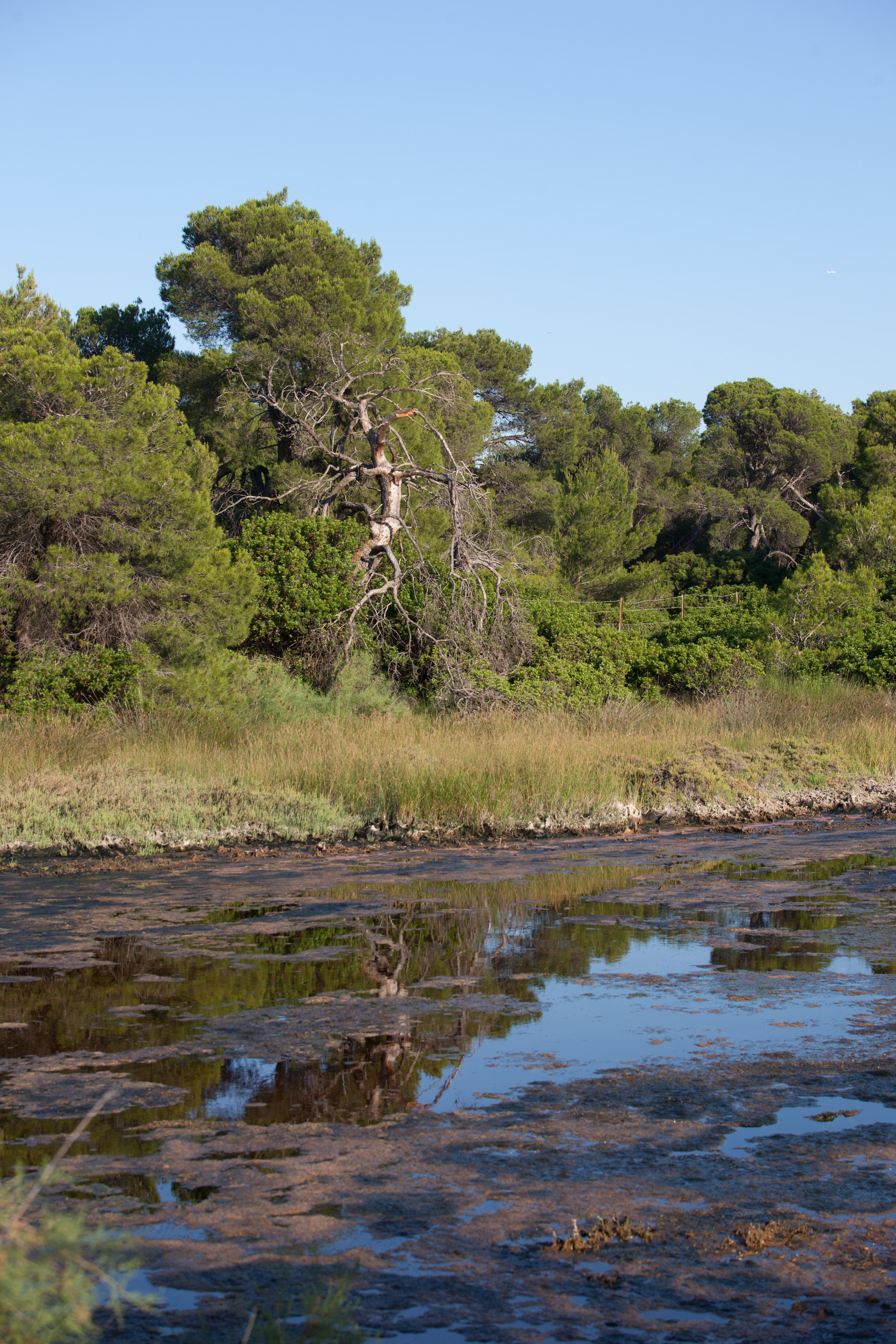 Between the sea of Schinias and the swamp there lies an ancient pine forest... This is a photography of Natura 2000 protected area with ID GR3000003